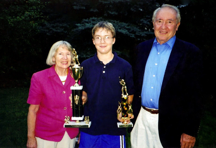 This photo shows Frank Truitt (right) with his wife Kay (left) and grandson Ian (center) in Upper Arlington, Ohio. Photo taken in August, 2001.